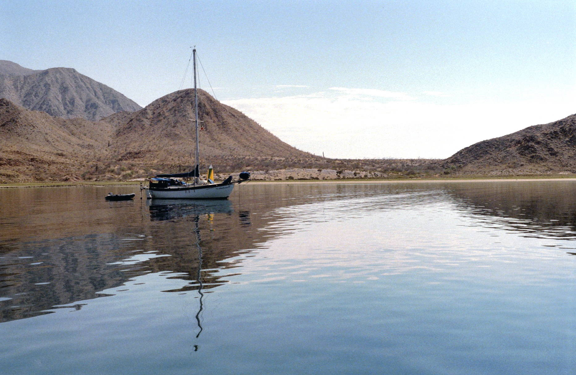 Boat at anchor in Puerto Don Juan near Bahía de los Ángeles